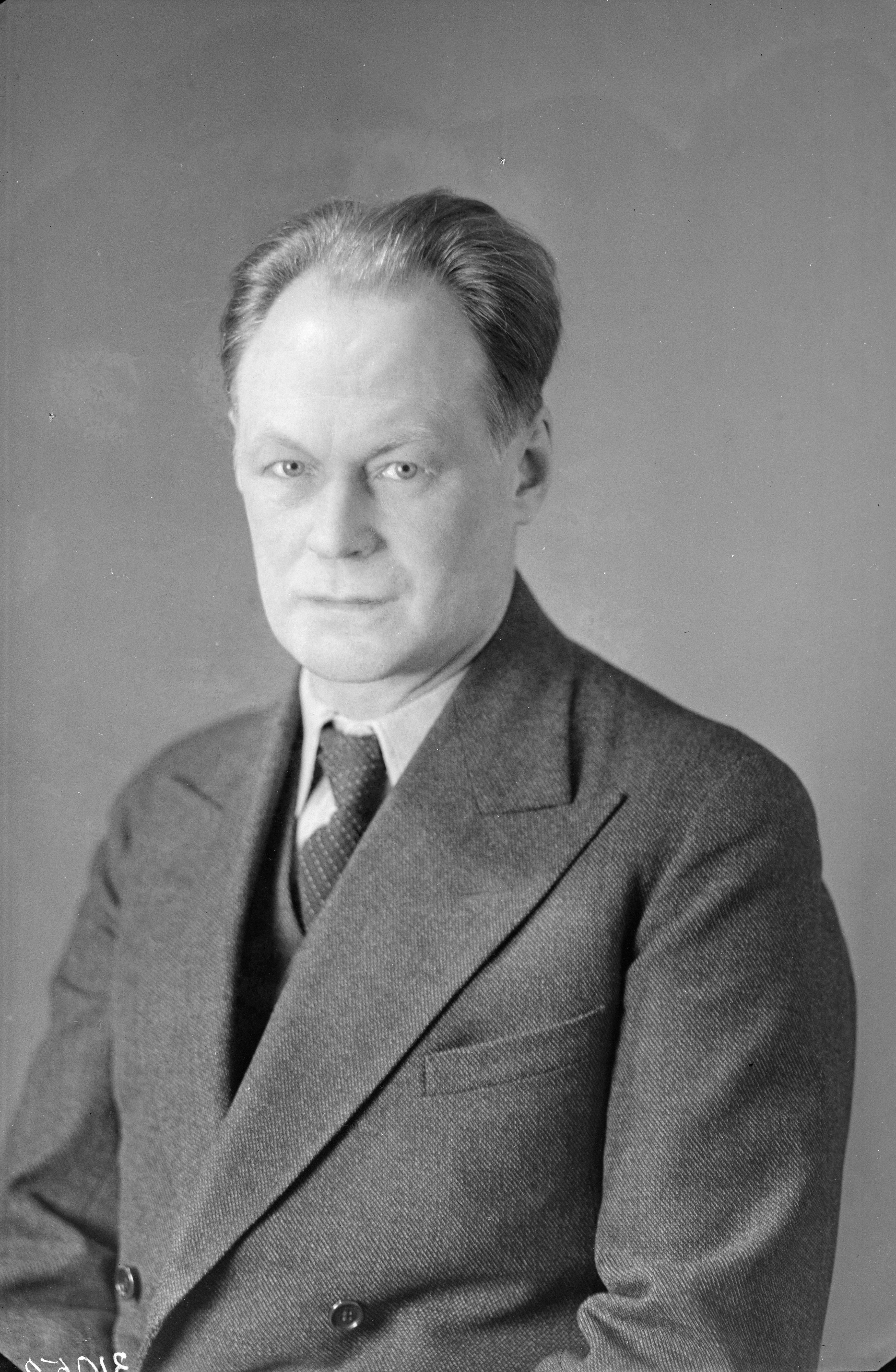 Photograph of the Finnish art historian Ludvig Wennervirta (1882–1959).